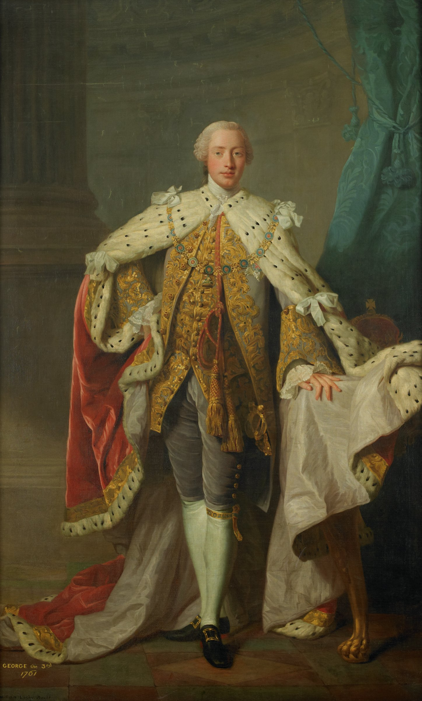 This painting is a version of the official state portrait painted by the Scottish artist Allan Ramsay.